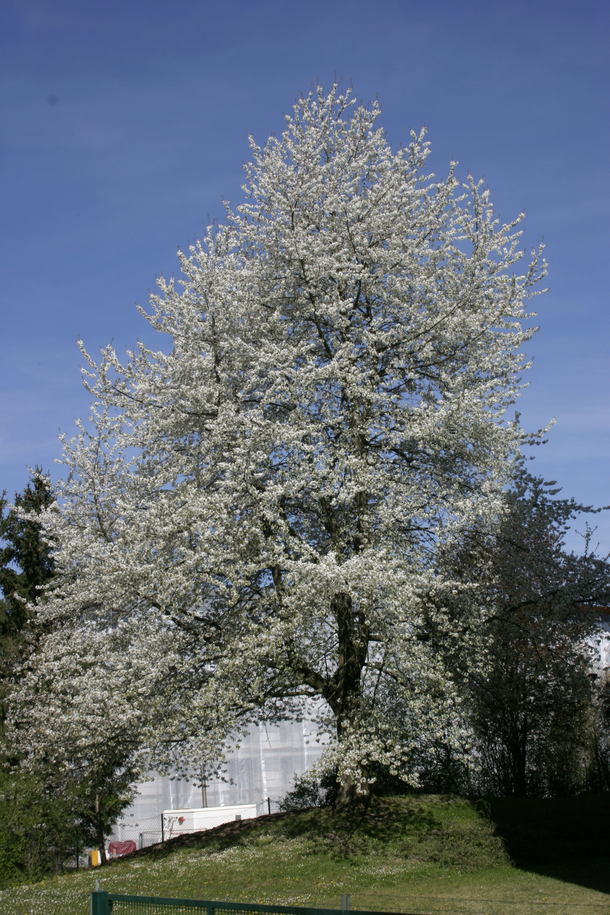 Flowering Prunus cerasus